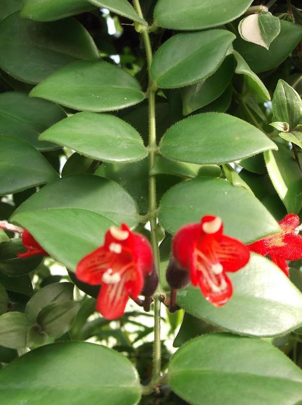 Lipstick plant (Aeschynanthus radicans) in Kew Gardens, England.